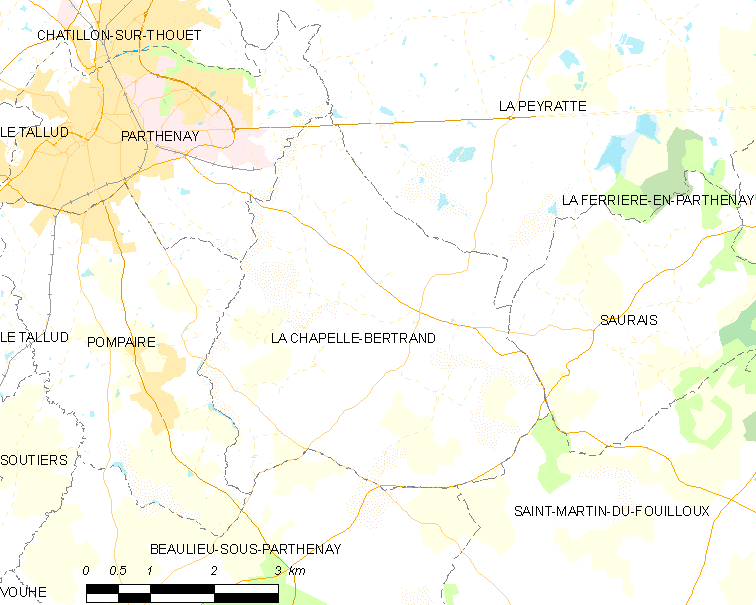 Map of French municipality La Chapelle-Bertrand